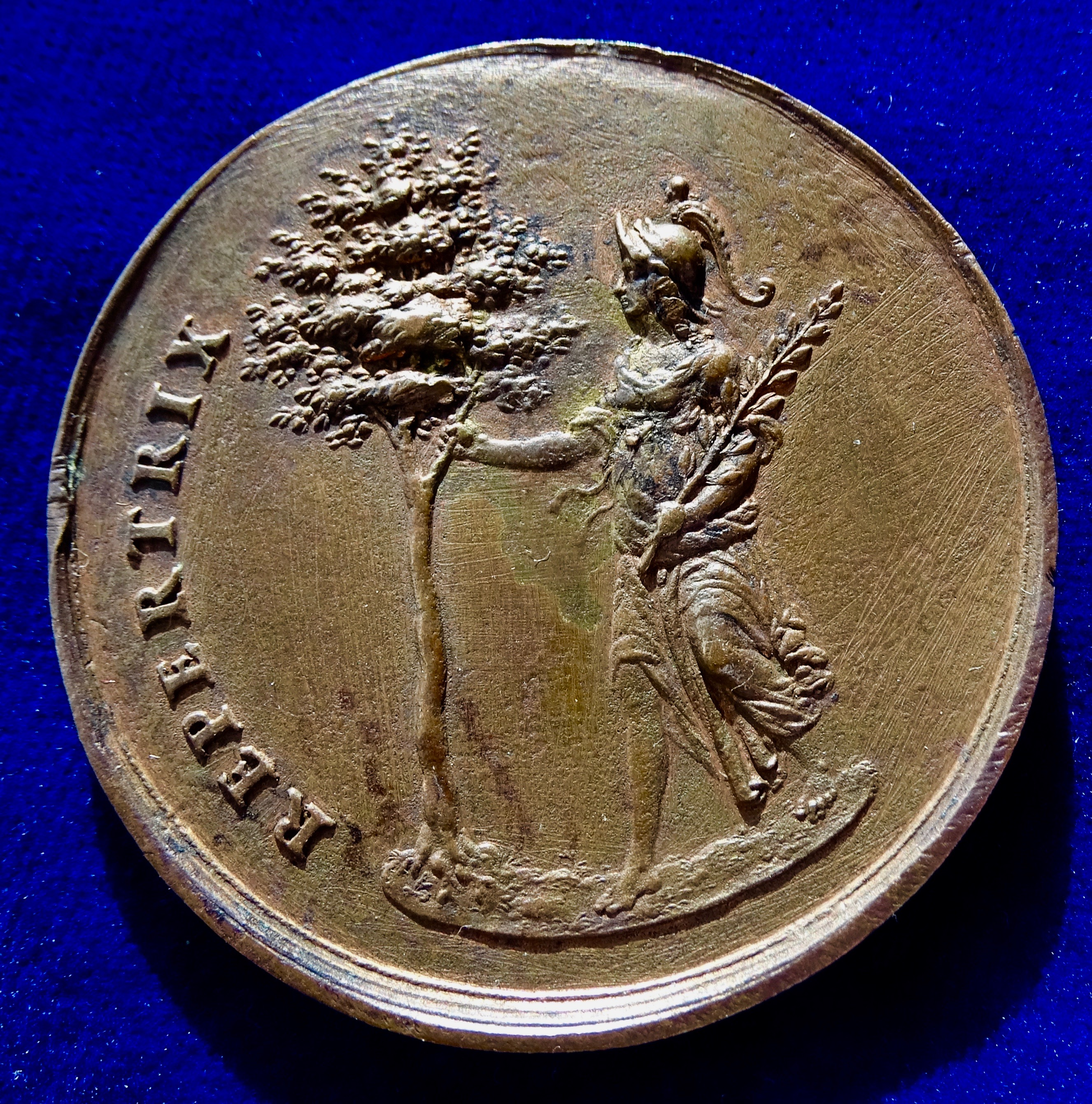 Sebastian Dadler Original Medal N.D. (1648), Christina of Sweden, Peace of Westphalia. Copper medallion d. = 55 mm. Christina, Queen of Sweden, 1632 - 1654 Portrait with feathered helmet r., curved at r.: "CHRISTINA"/ The Queen as Minerva standing l., holding an olive branch in her l. arm, and grasping the tree of knowledge with her r. hand. curved at l.: "REPERTRIX". Der Westfälische Frieden, Stadtmuseum Münster, Nr. 84. Kungliga Myntkabinette, Stockholm, Sweden (H1S 268.20) (Ag). Condition: Beautiful EXTREMELY FINE.